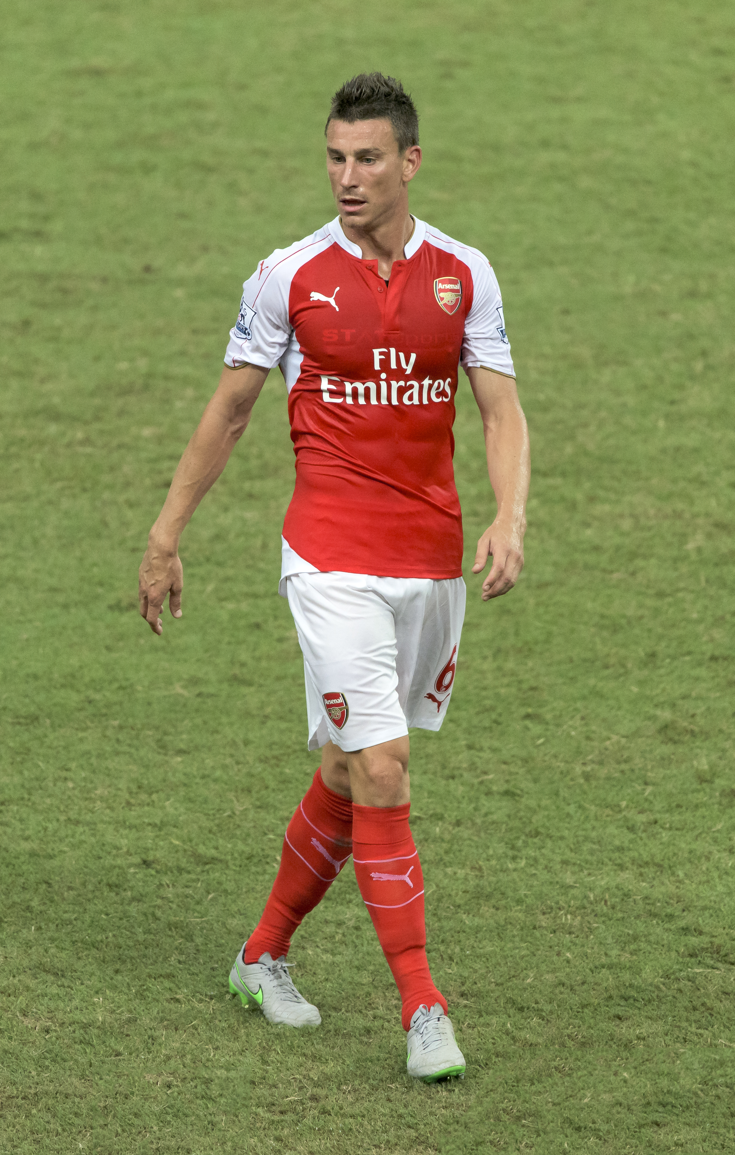 laurent koscielny 2015 arsenal barcalys asia trophy singapore